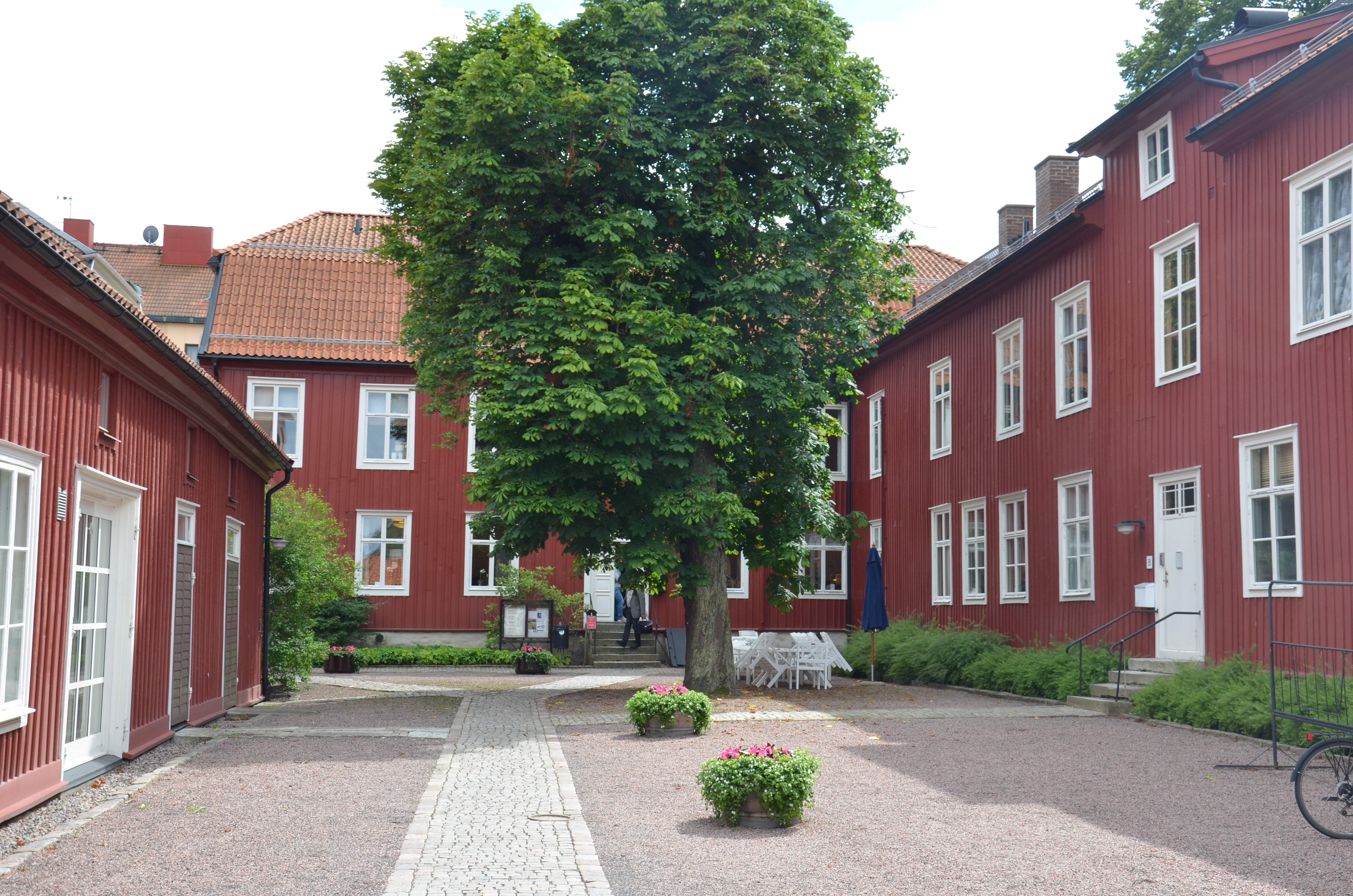 Klockaregården, Jönköping, Prästgränd/Östra Storgatan (kvarteret Bikten)